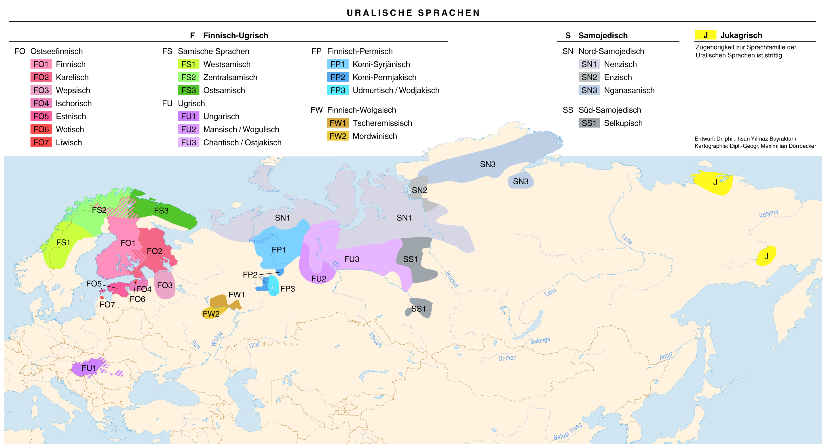 Linguistic maps of the Uralic languages